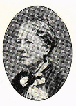 Emilia Charlotta Risberg